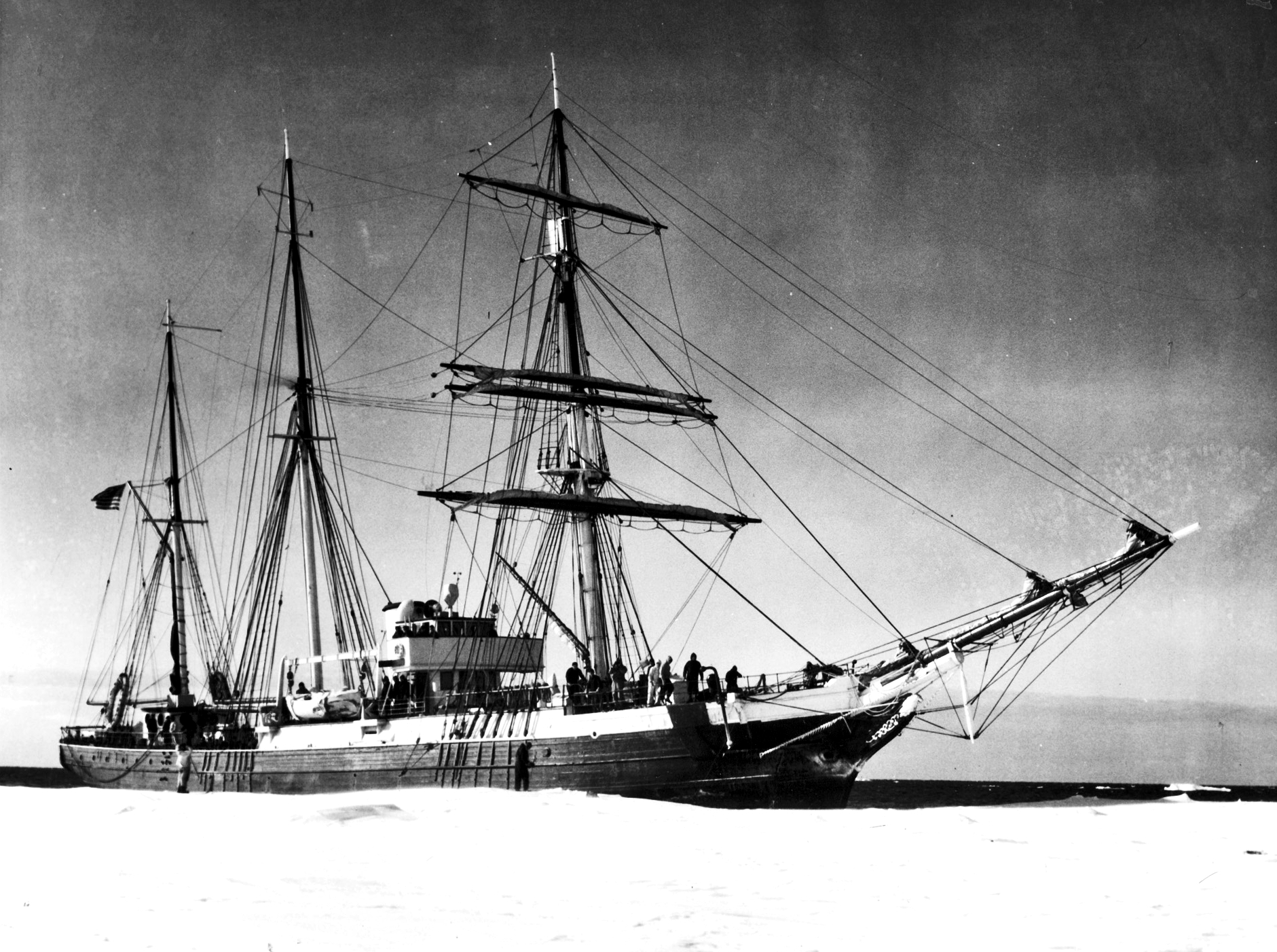 View of the USS Bear (AG-29) in the Antarctic during Second Byrd Antarctic Expedition.